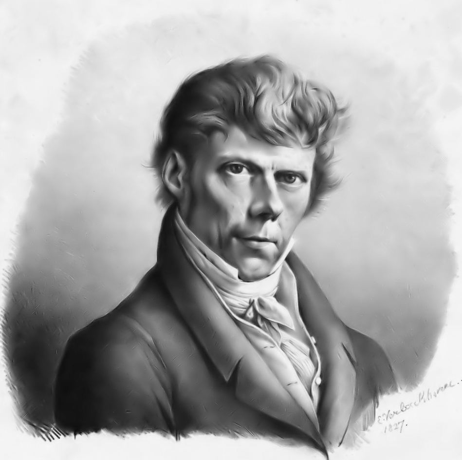 Joseph Carl Cogels 1827